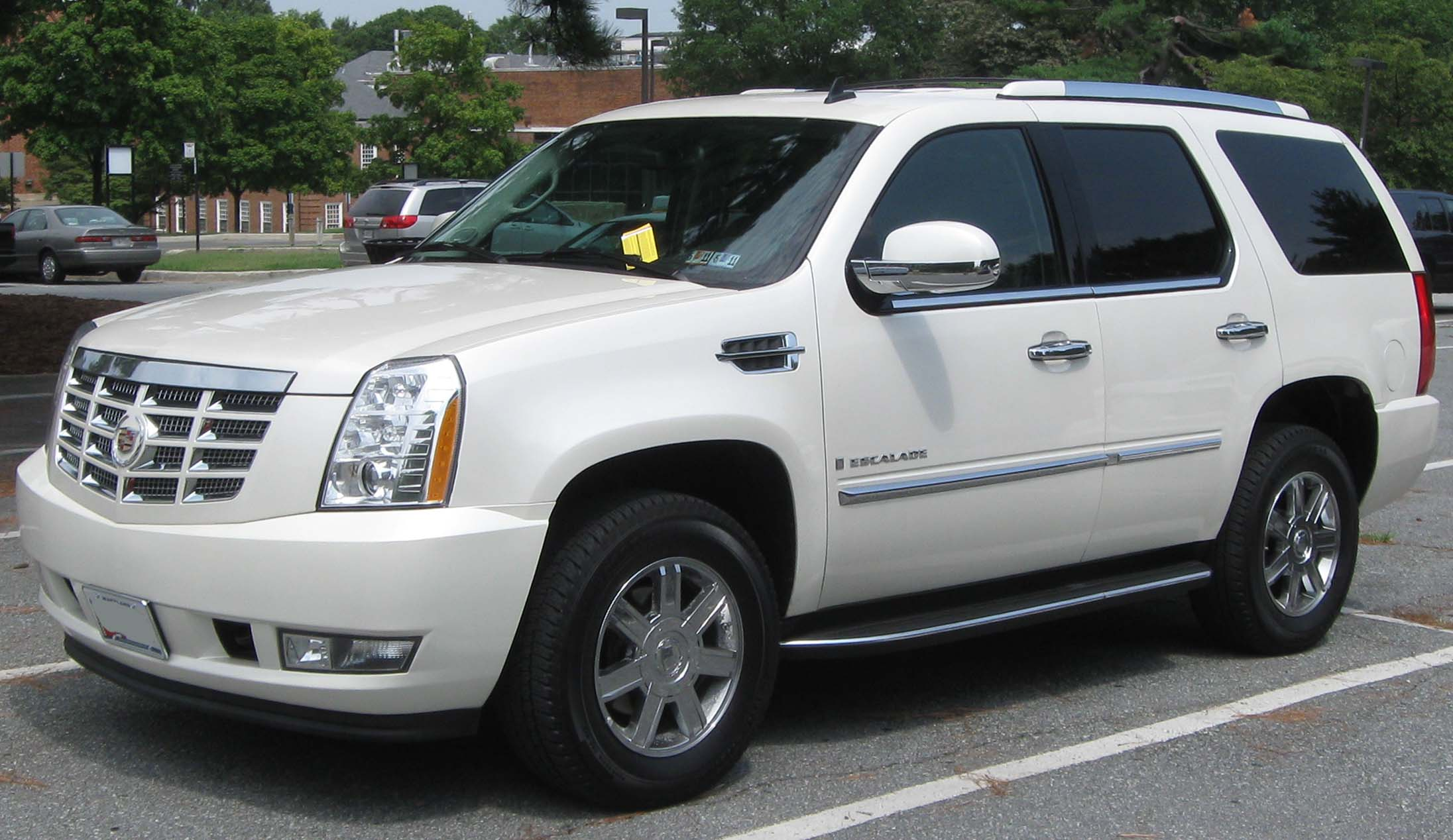 2007-2010 Cadillac Escalade photographed in College Park, Maryland, USA.